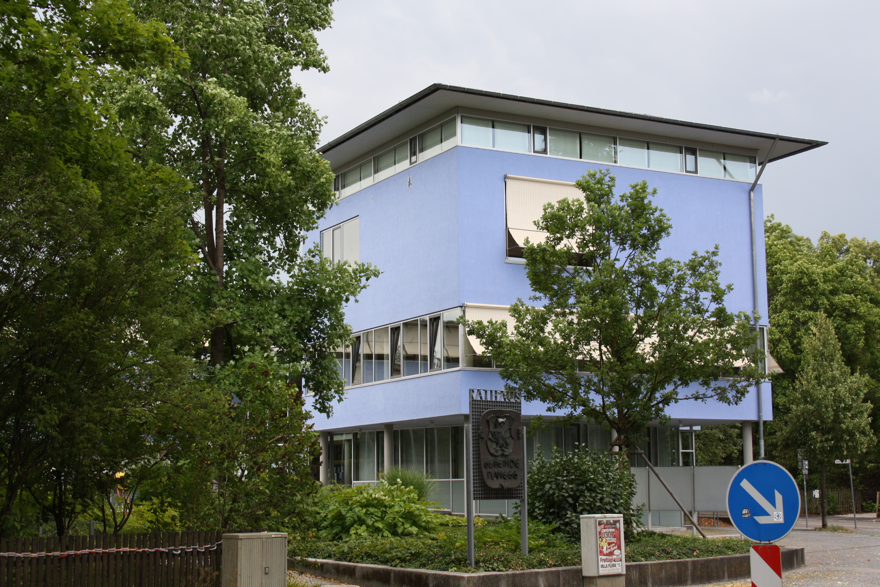 The town hall of Planegg (Germany)